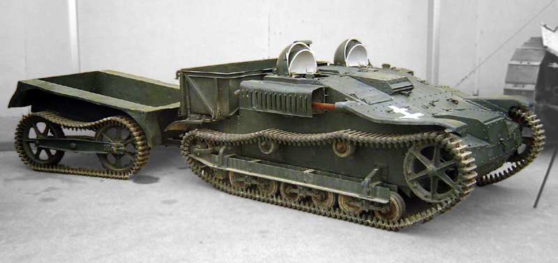 A Renault UE Chenillette light tank on display in the collection of the Musée des Blindés (Museum of armored vehicles), Saumur, France. The picture was taken on August 8, 2006.